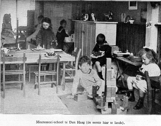 Picture taken in the first Montessori-school in Holland, The Hague 1915.